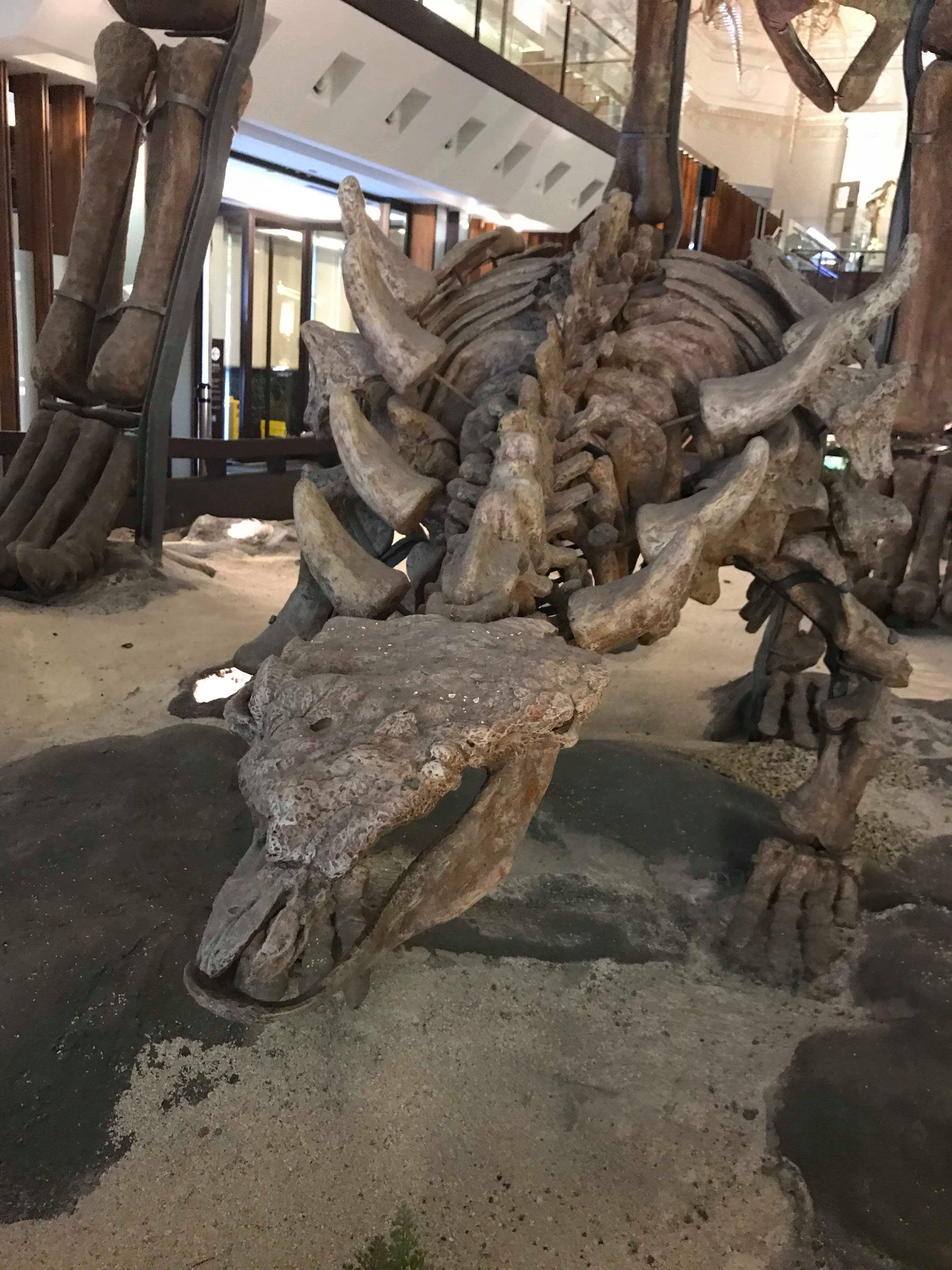 Taipeh